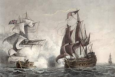 Capture of Northumberland by Mars, 1724 (actually the event took place in 1744)